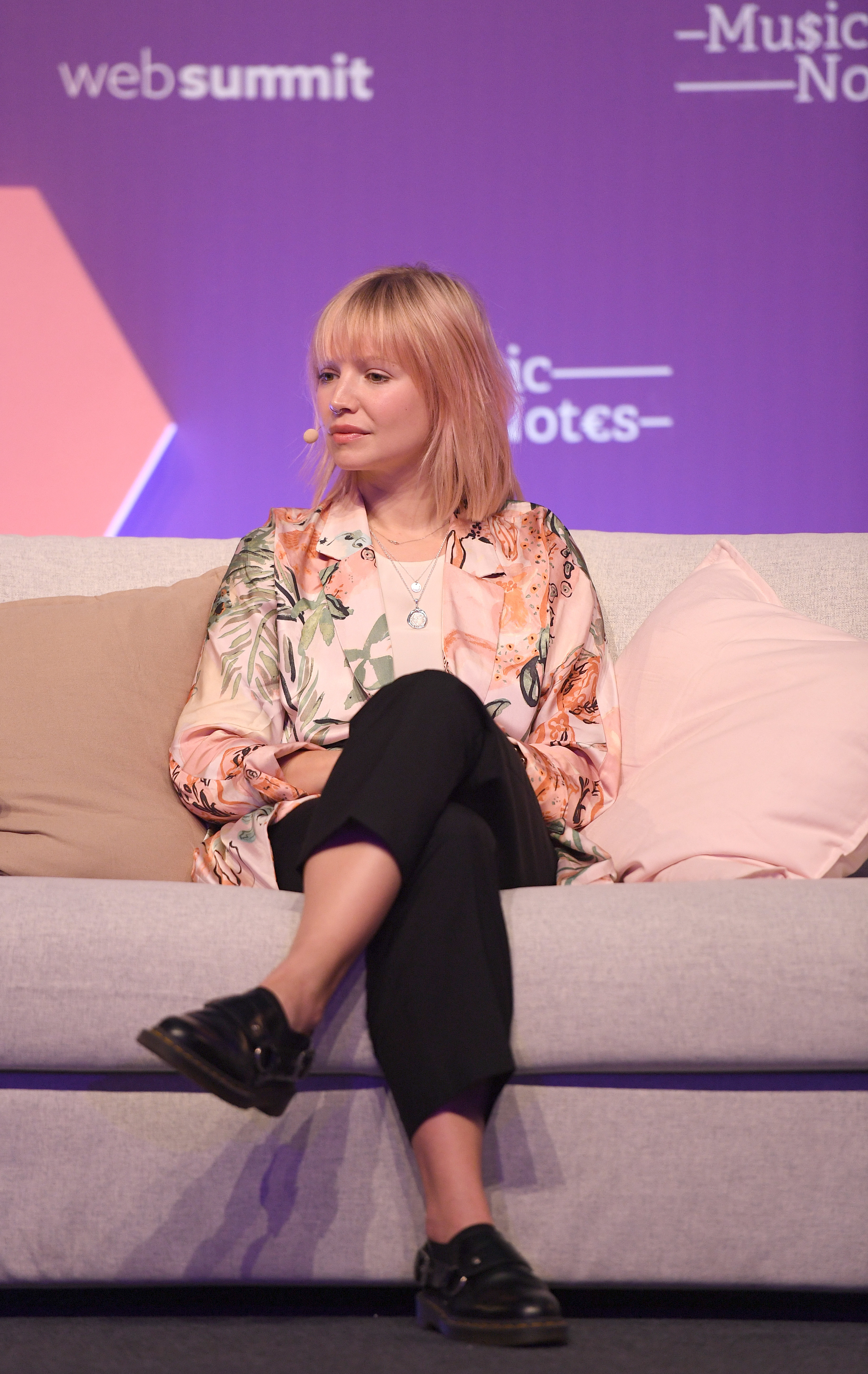 8 November 2018; Brianna Price, In Toto, on MUSICNOTES Stage during day three of Web Summit 2018 at the Altice Arena in Lisbon, Portugal. Photo by Eóin Noonan/Web Summit via Sportsfile